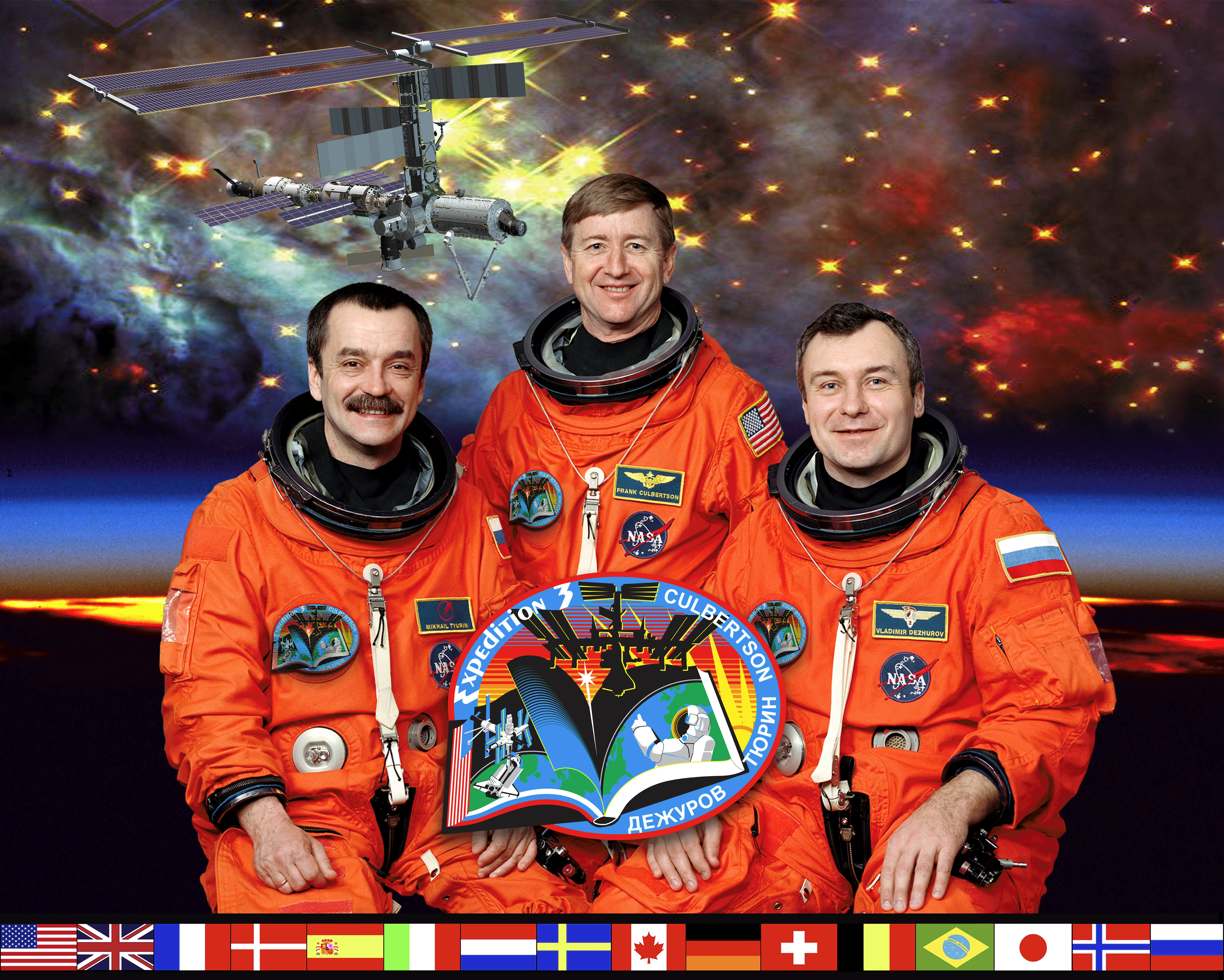 ISS003-S-002 (June 2001) --- Taking a break from a busy training schedule to pose for a portrait are the crew members for Expedition Three, scheduled to replace the current cosmonaut/astronaut trio aboard the International Space Station (ISS). Astronaut Frank L. Culbertson, Jr. (center), commander, is flanked by cosmonauts Mikhail Tyurin (left) and Vladimir Dezhurov, both flight engineers representing Rosaviakosmos. The three will accompany the STS-105 crew into Earth orbit aboard the Space Shuttle Discovery this summer to begin their lengthy stay on the orbital outpost.